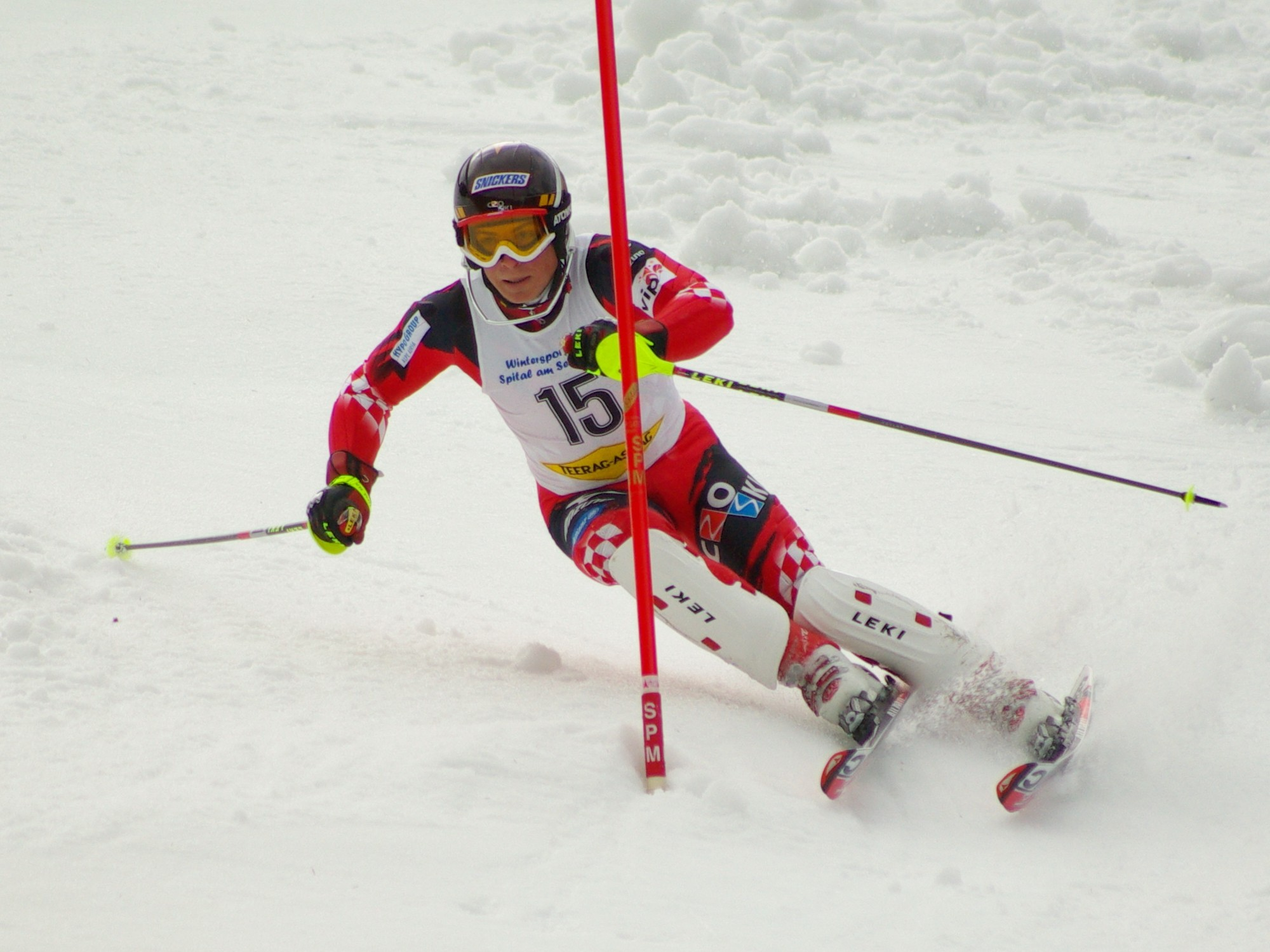 Croatian alpine skier Tin Široki during the slalom run of the FIS super combined in Spital am Semmering, Austria on 11 March 2008.